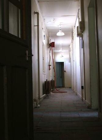 Glenodeeintcorridor